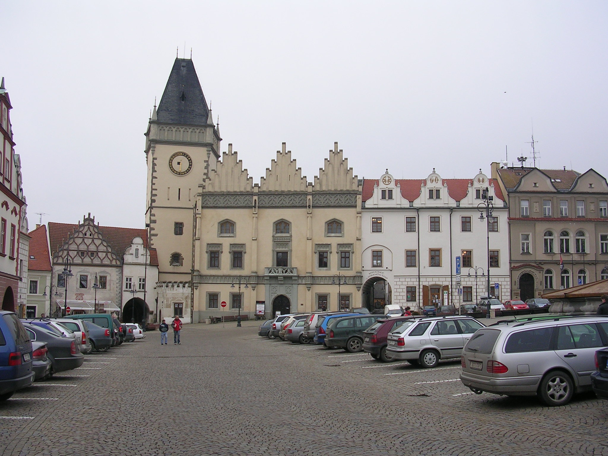 Tábor, the Czech Republic. The old town hall at Žižka Square.